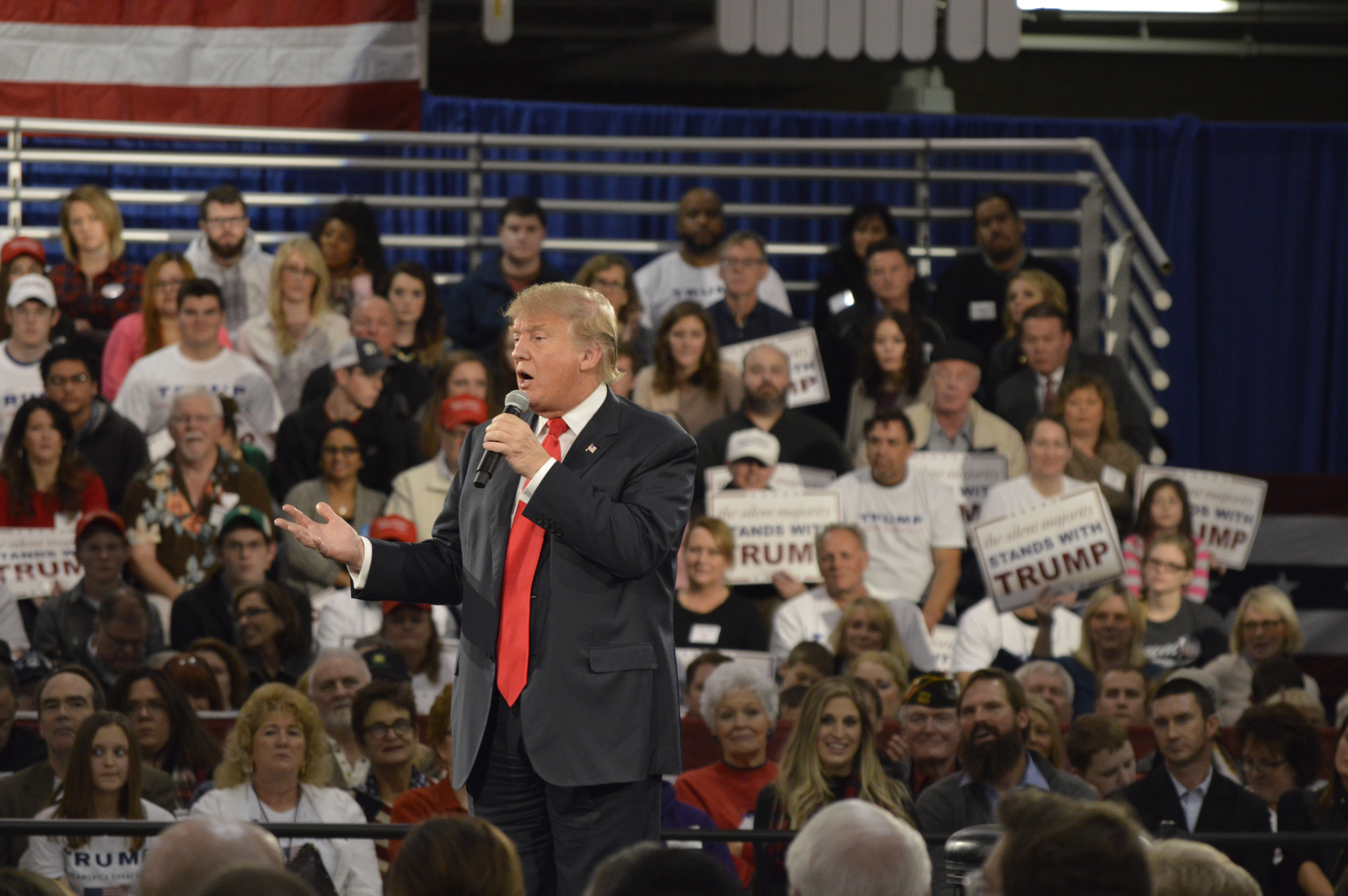 Republican presidential candidate Donald Trump during a town hall at the Iowa State Fairgrounds in Des Moines, Iowa on Friday, Dec. 11, 2015. Mandatory credit to Alex Hanson if used elsewhere.